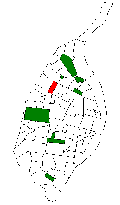 Map of St. Louis neighborhood #52